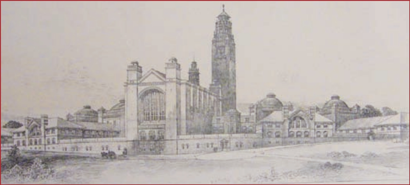 Showing the Aston Webb building and Old Joe as inspired by St. Mark's Campanile, Venice.